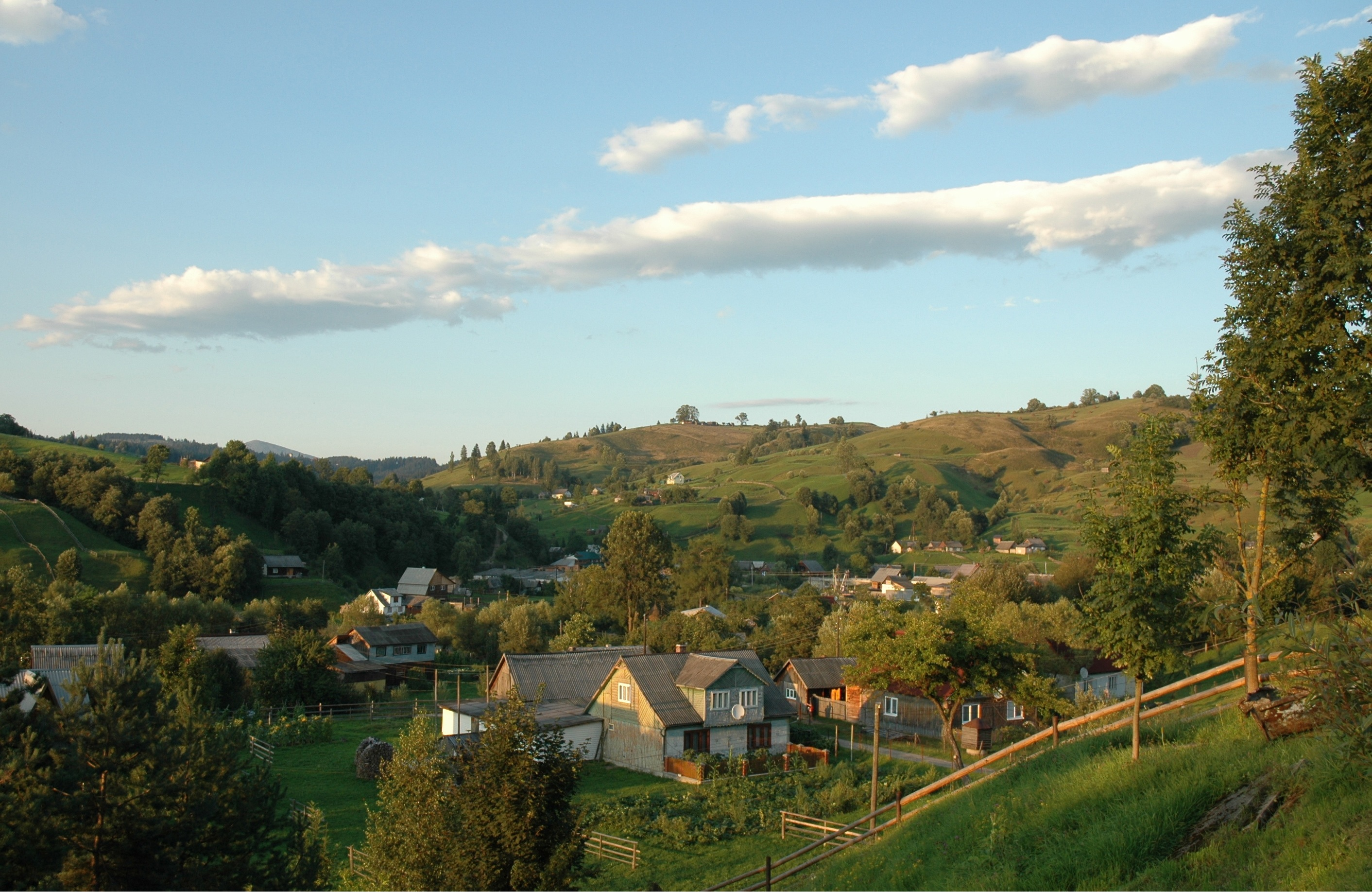 Landscape in Lazeshchyna (2011)